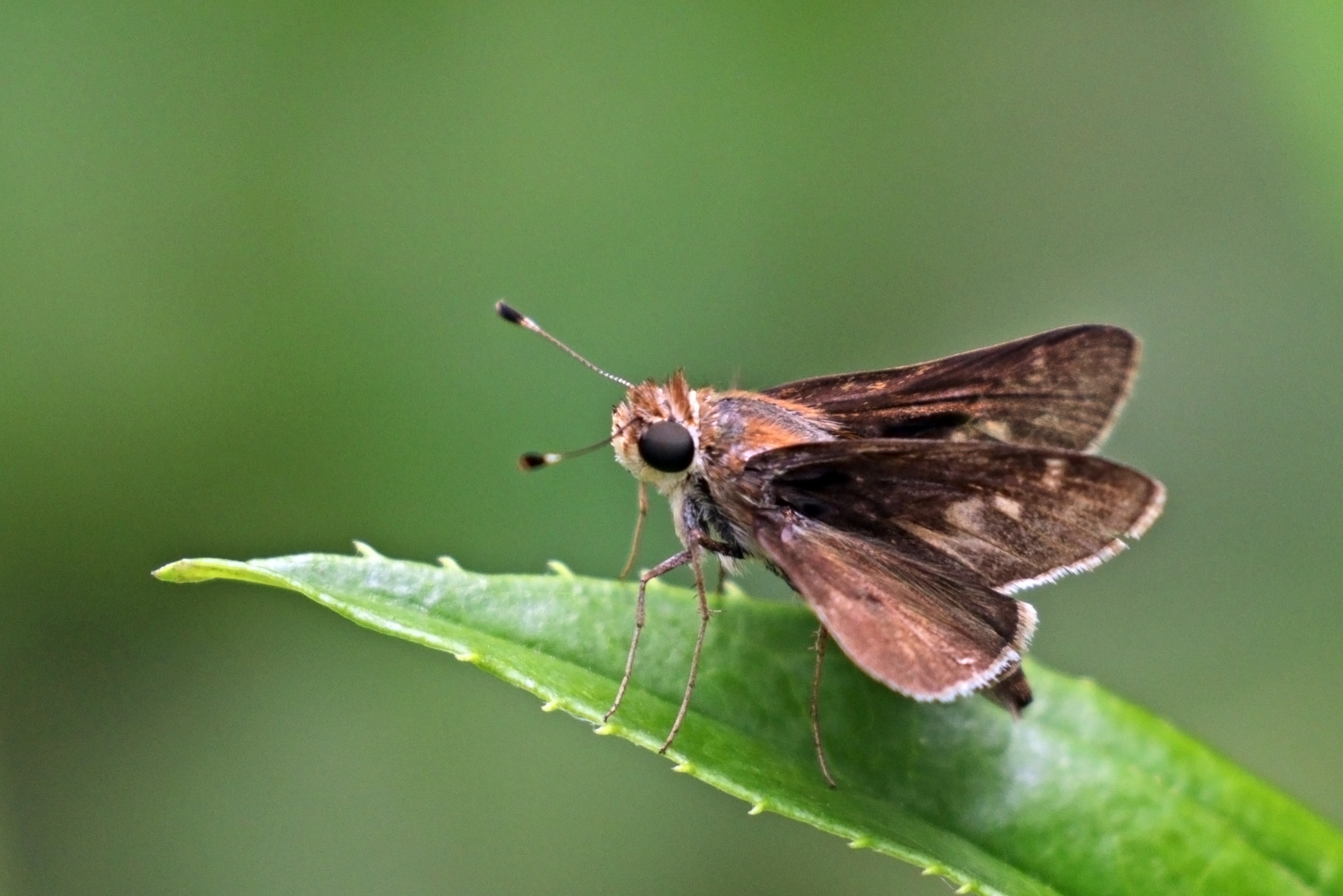 Pompeius skipper (Pompeius pompeius), Soberania National Park , Panama